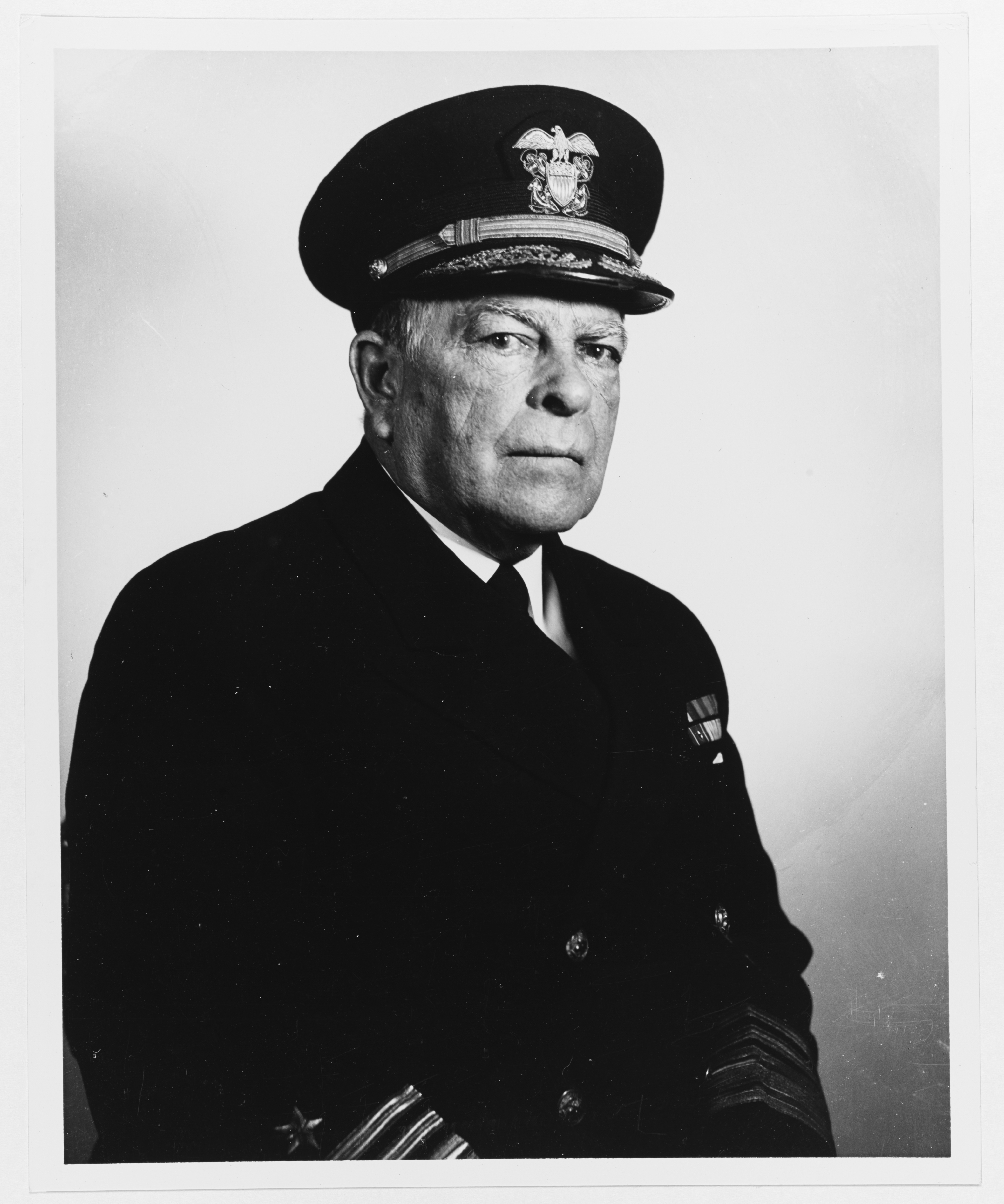 Vice Admiral William S. Pye source: [1]